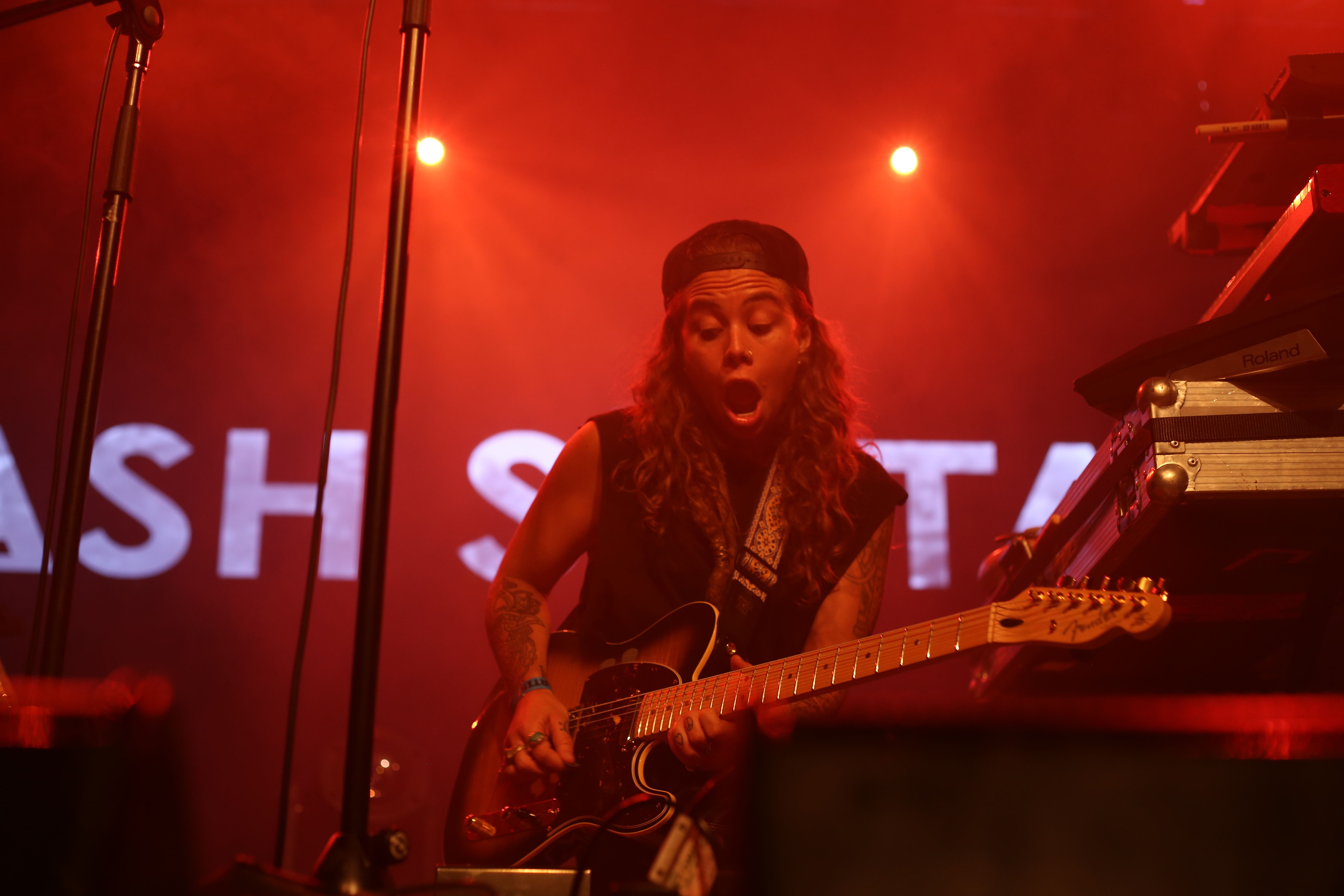 Tash Sultana captured playing guitar at her live performance in Melbourne